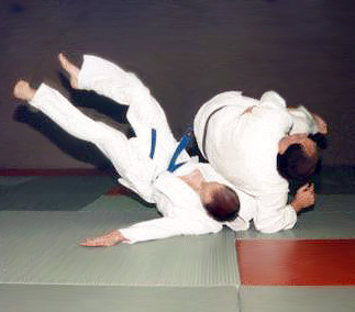 Soto-makikomi Judo throw performed by Judoka.